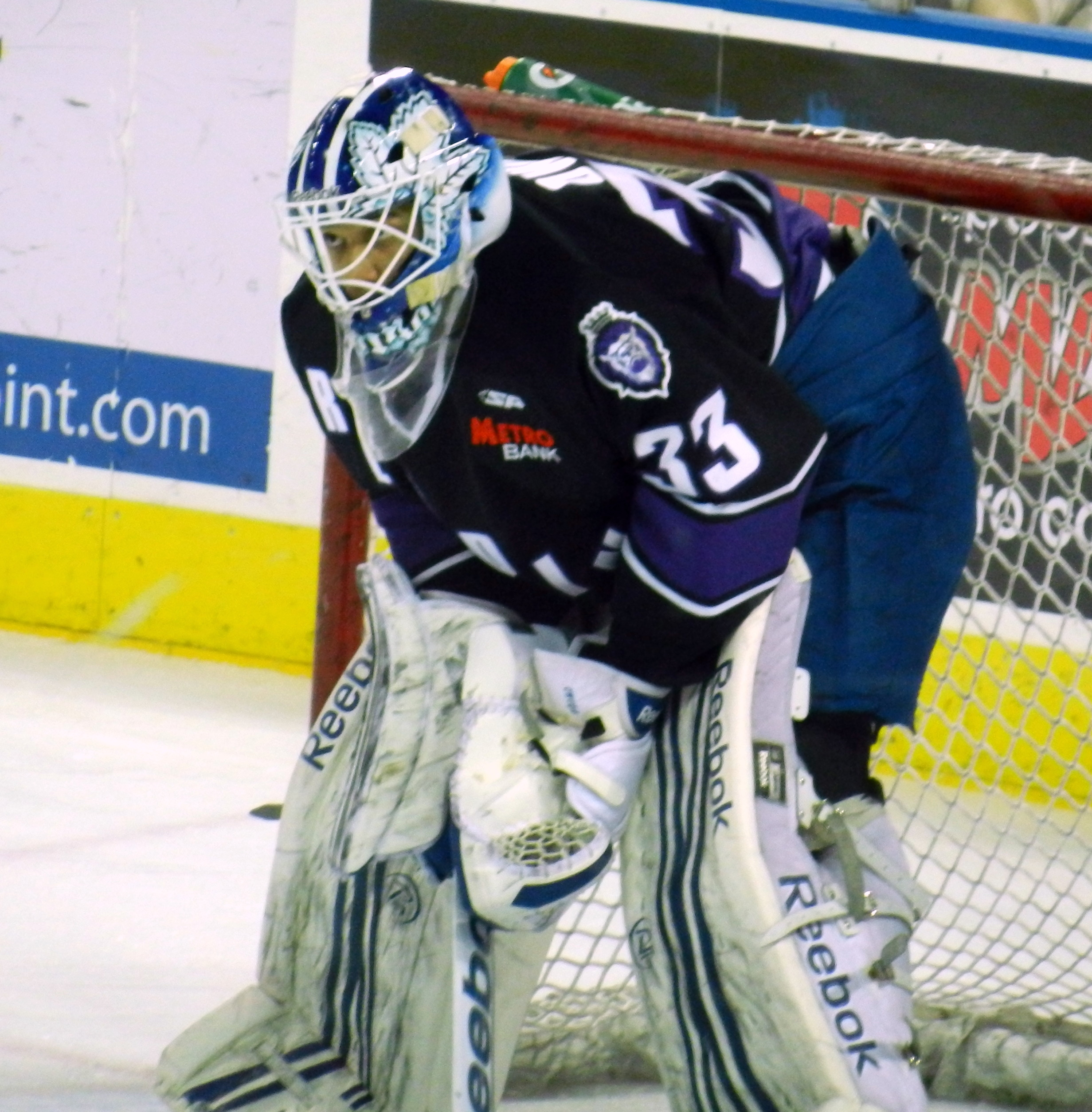 Mark Owuya playing for the Reading Royals in the ECHL